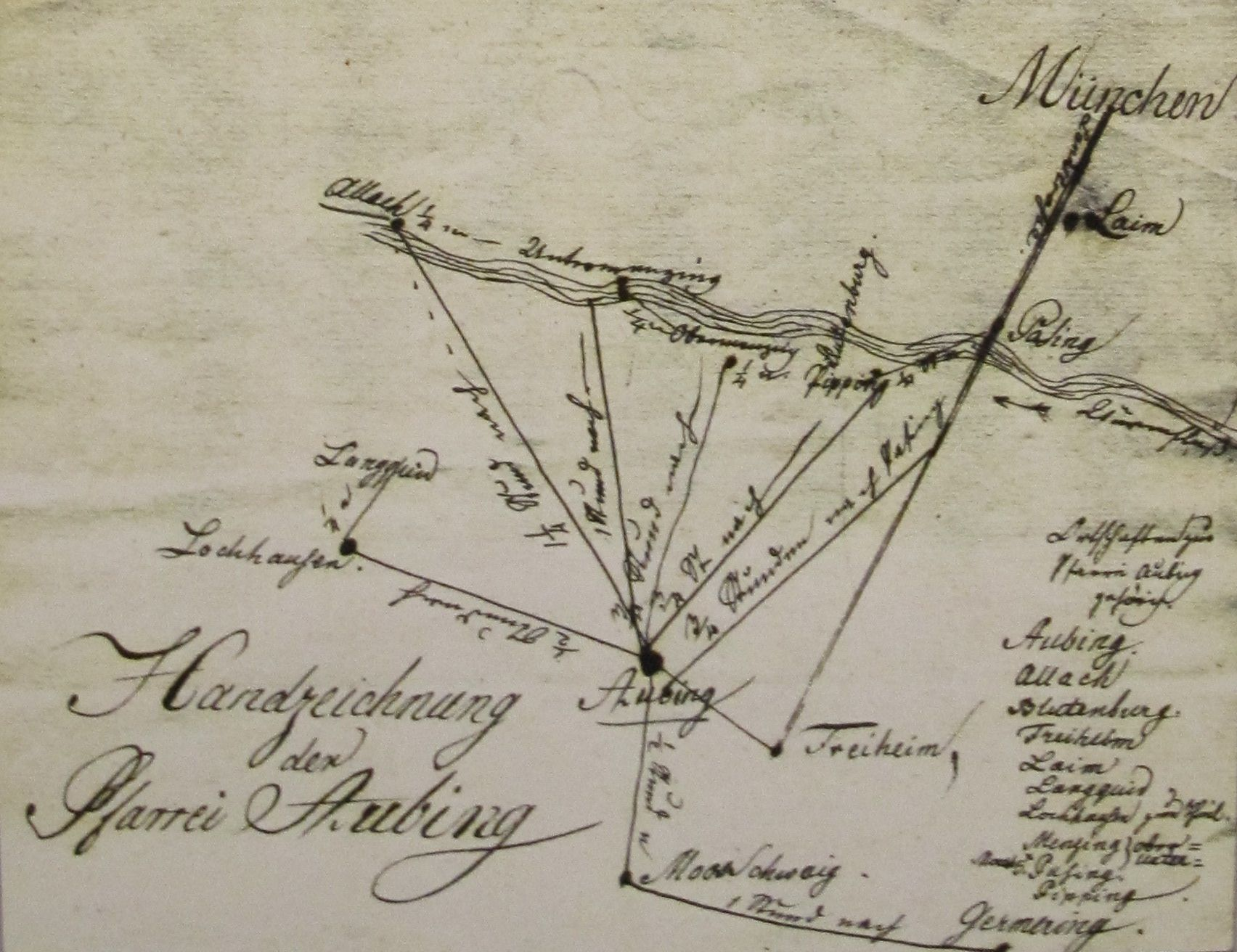 Description and map of the parish Aubing (today: Munich-Aubing), drawn by the priest Michael Prumer in 1817